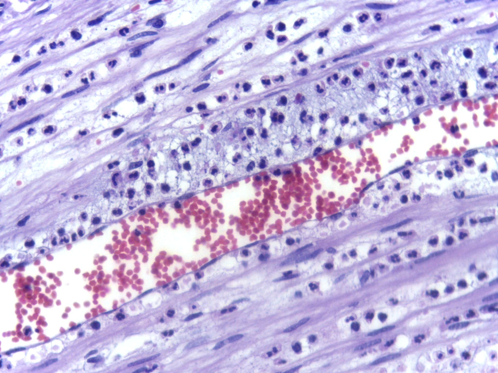 General pathology: Acute inflammation: Showing margination of neutrophils